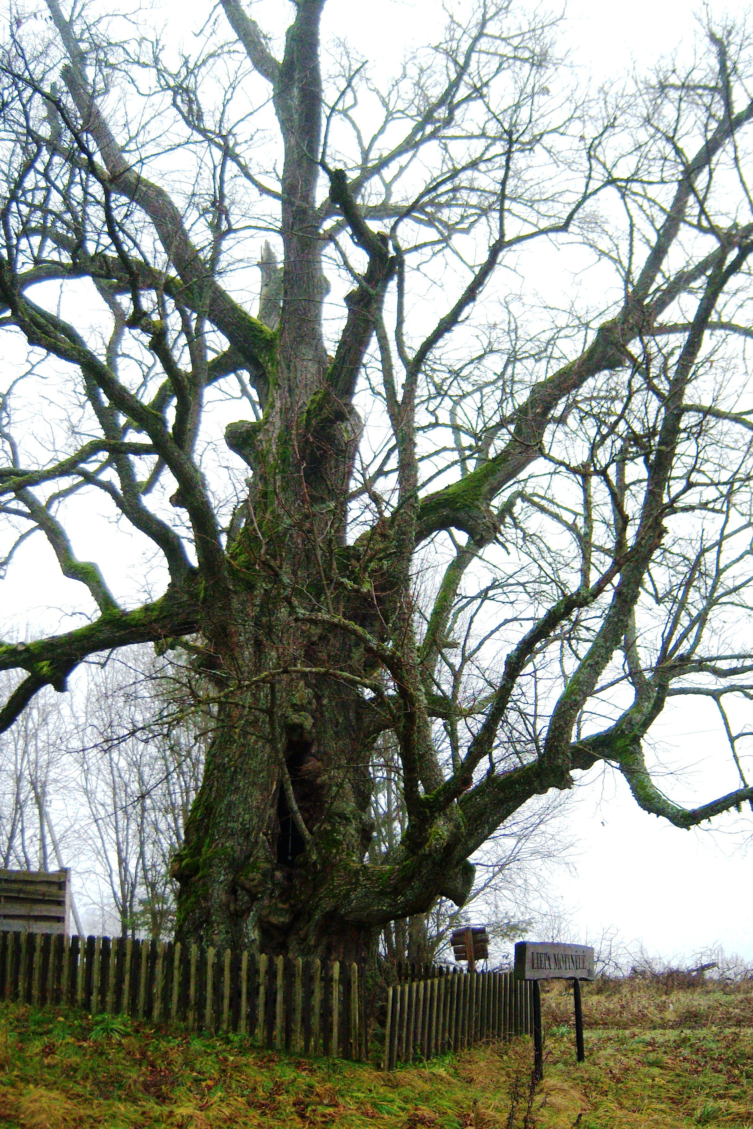 Lime the Mother in late autumn, natural heritage object, small-leaved lime (tilia cordata) in Braziūkai, Kaunas district, Lithuania